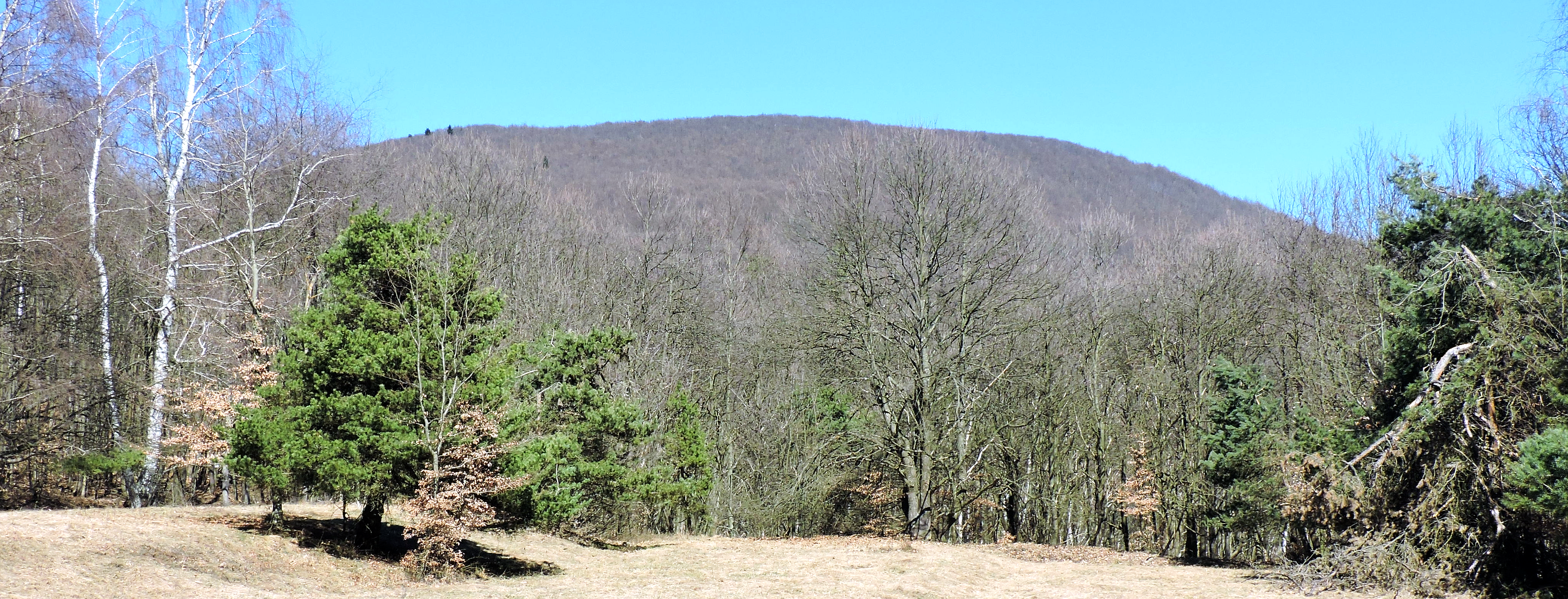 Ronco di Maglio (Ligurian Alps, Italy): southern iew